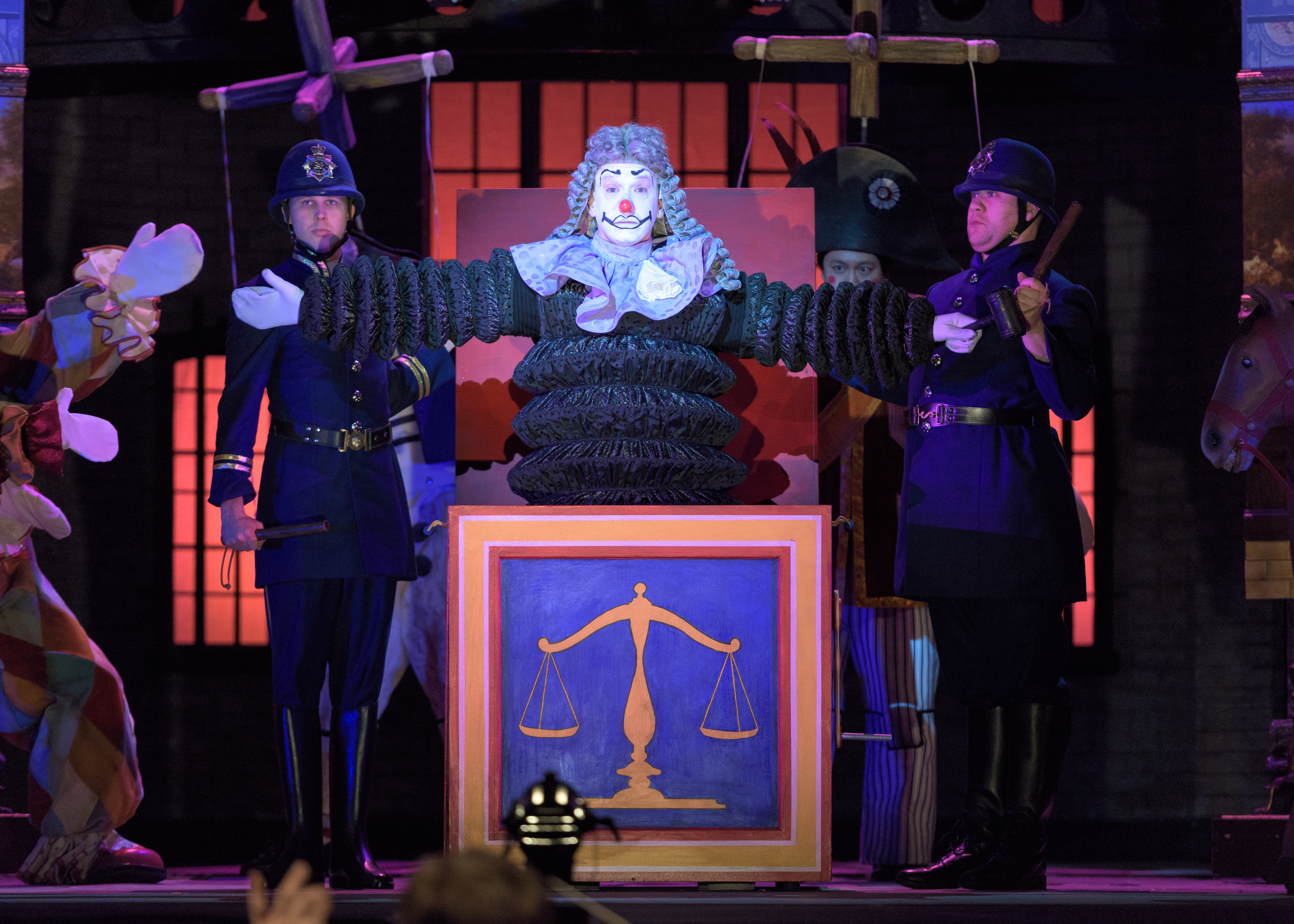 February 4, 2015 Academy of Music Philadelphia, PA Photo by Steven Pisano.